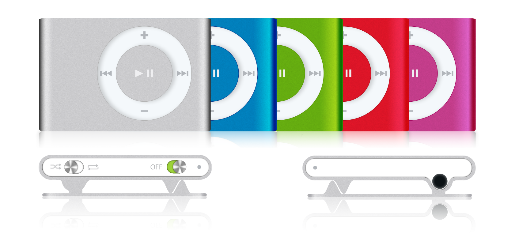 iPod Shuffle late 2008 colors Attribution: Matthieu Riegler, Wikimedia Commons